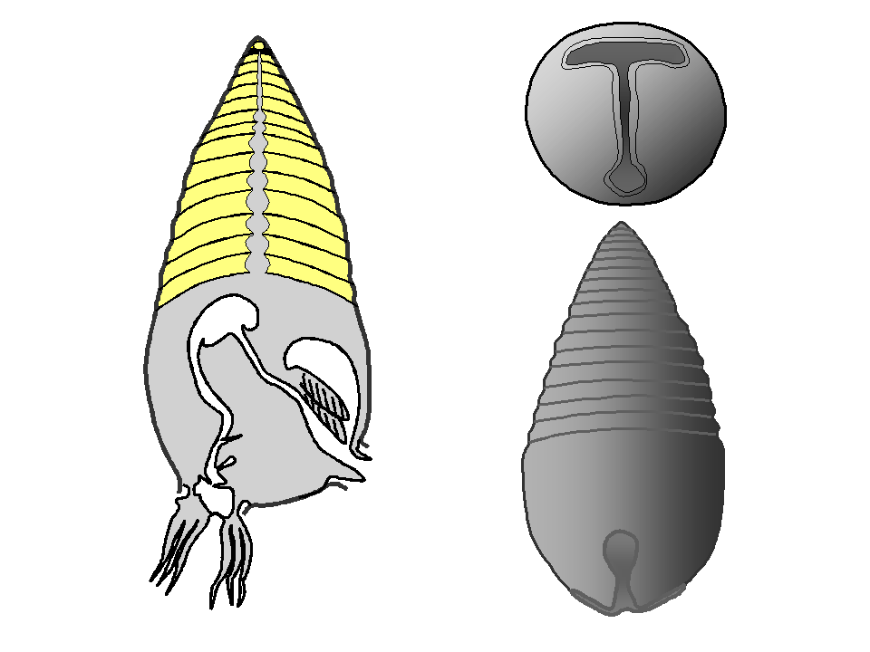 shell of the extinct nautiloid genus Gomphoceras (right) and tentative schematic reconstruction in life position.